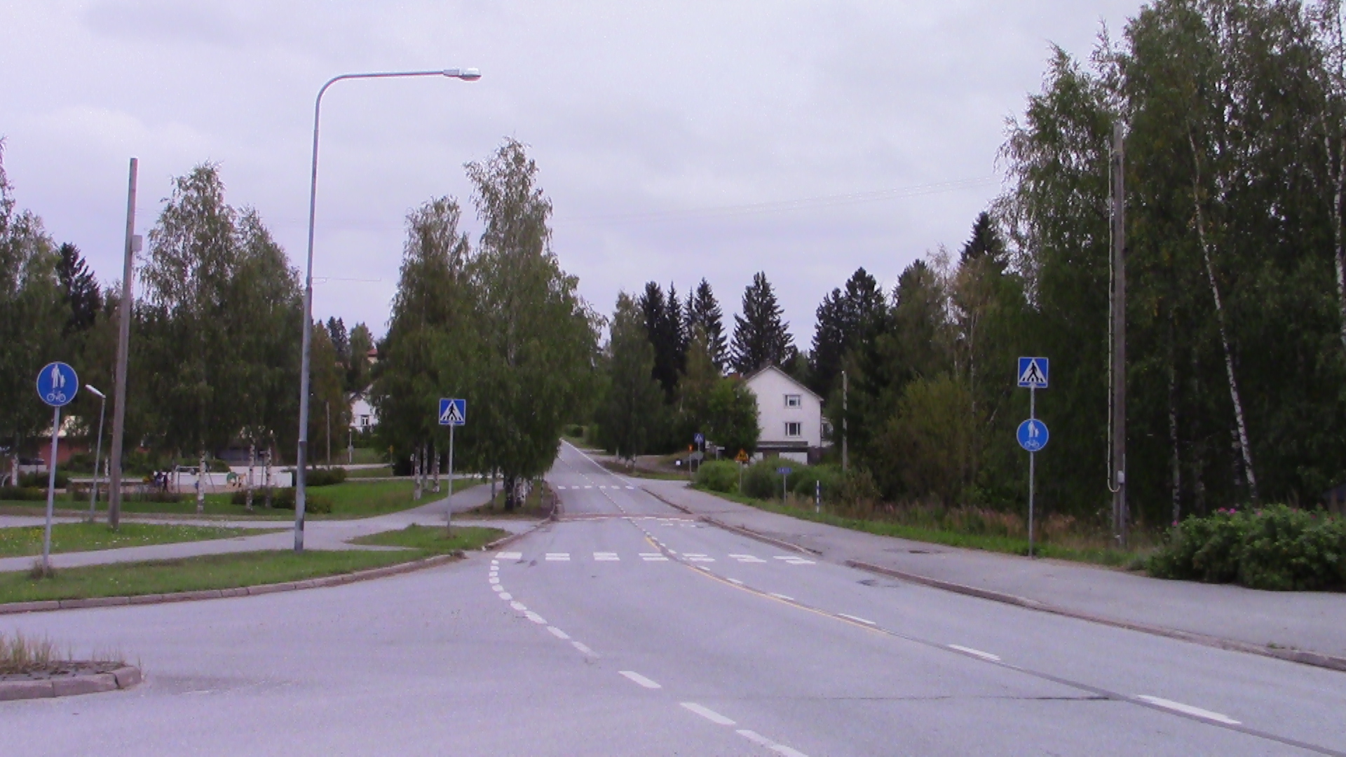 Finnish connecting road 6416 at Hankasalmi railway station village in Hankasalmi. The road runs from Nujula to the crossing of regional road 446.